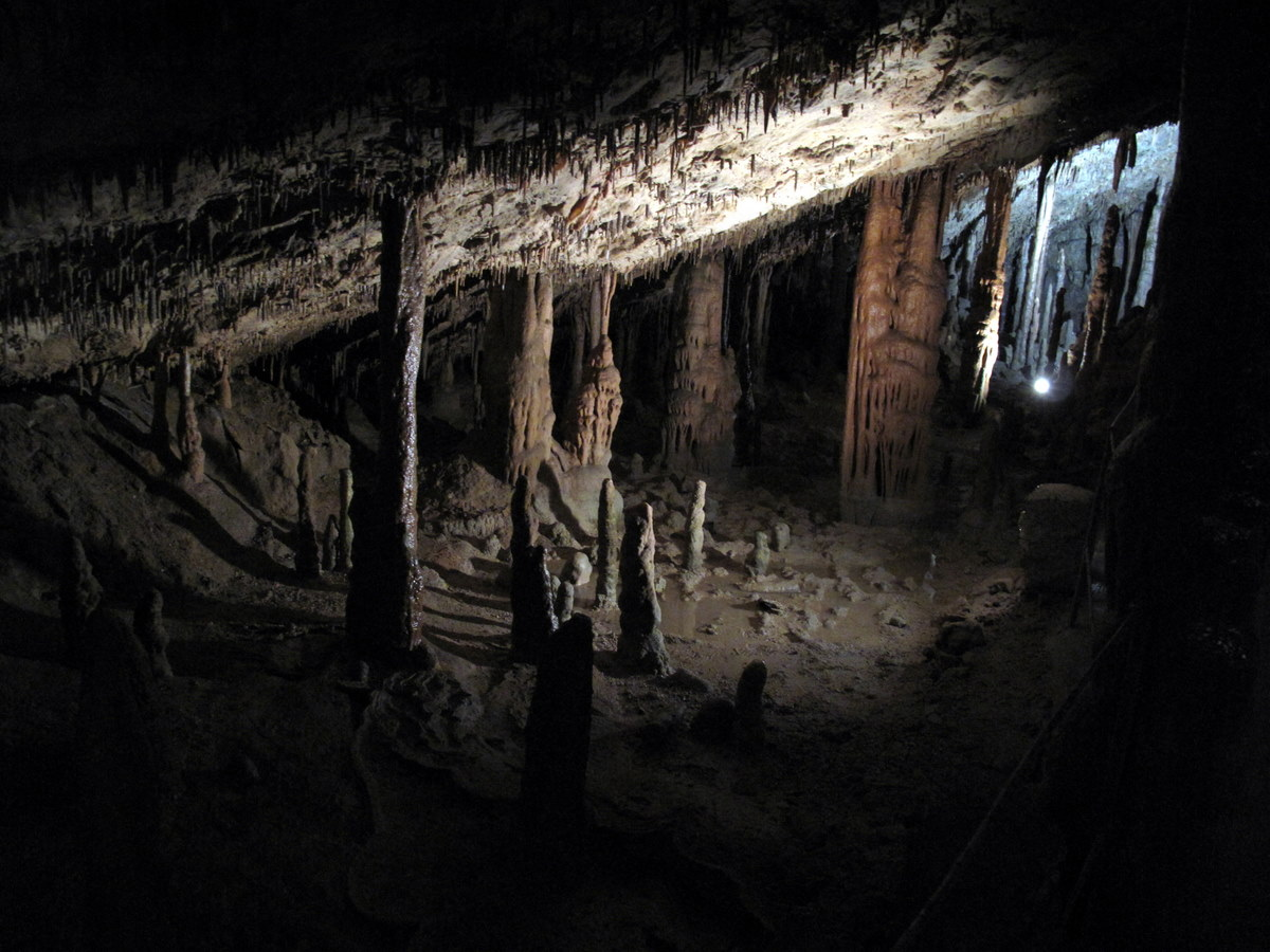 from a trip documented on Slovenia